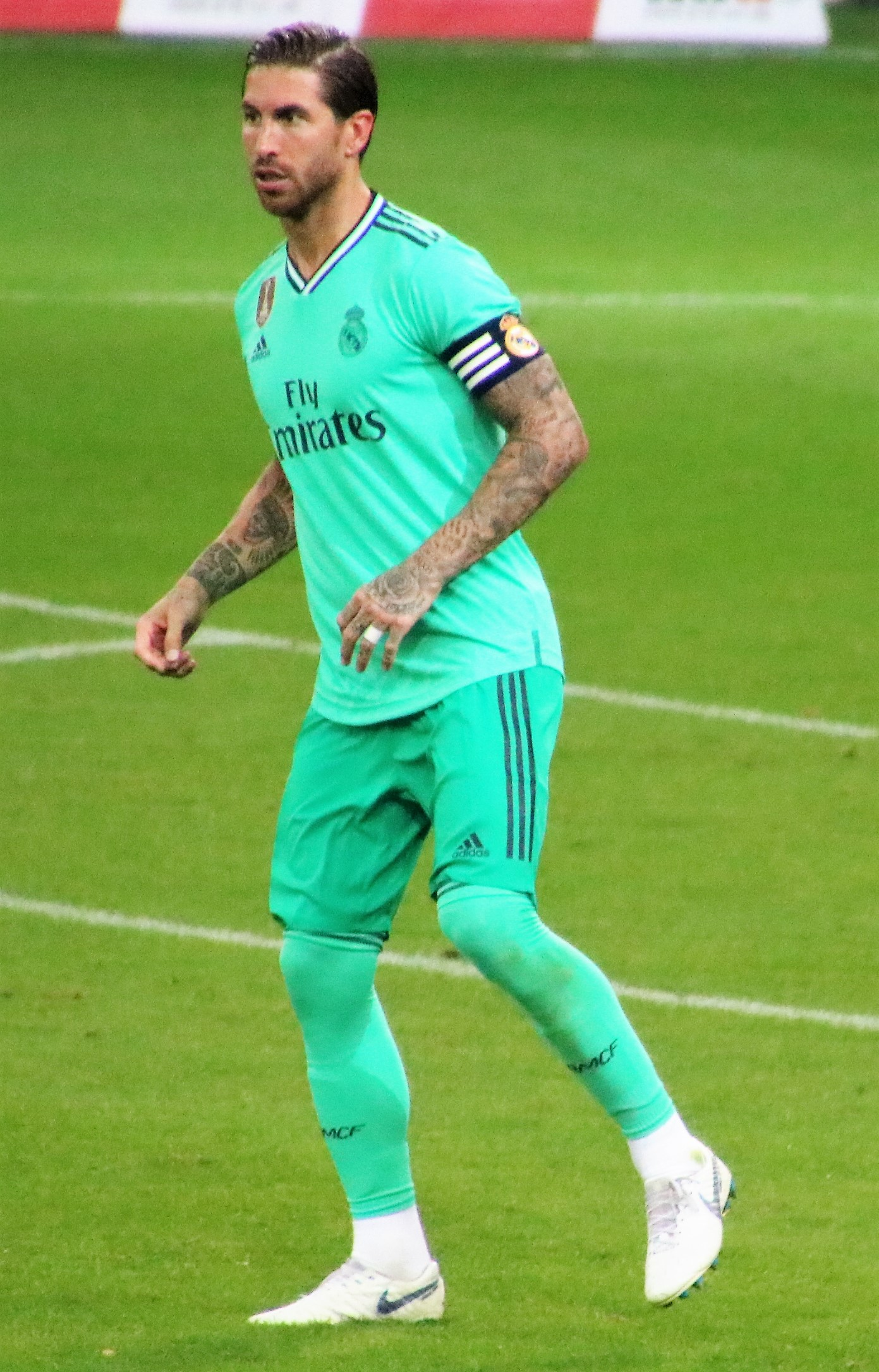 Preseason match